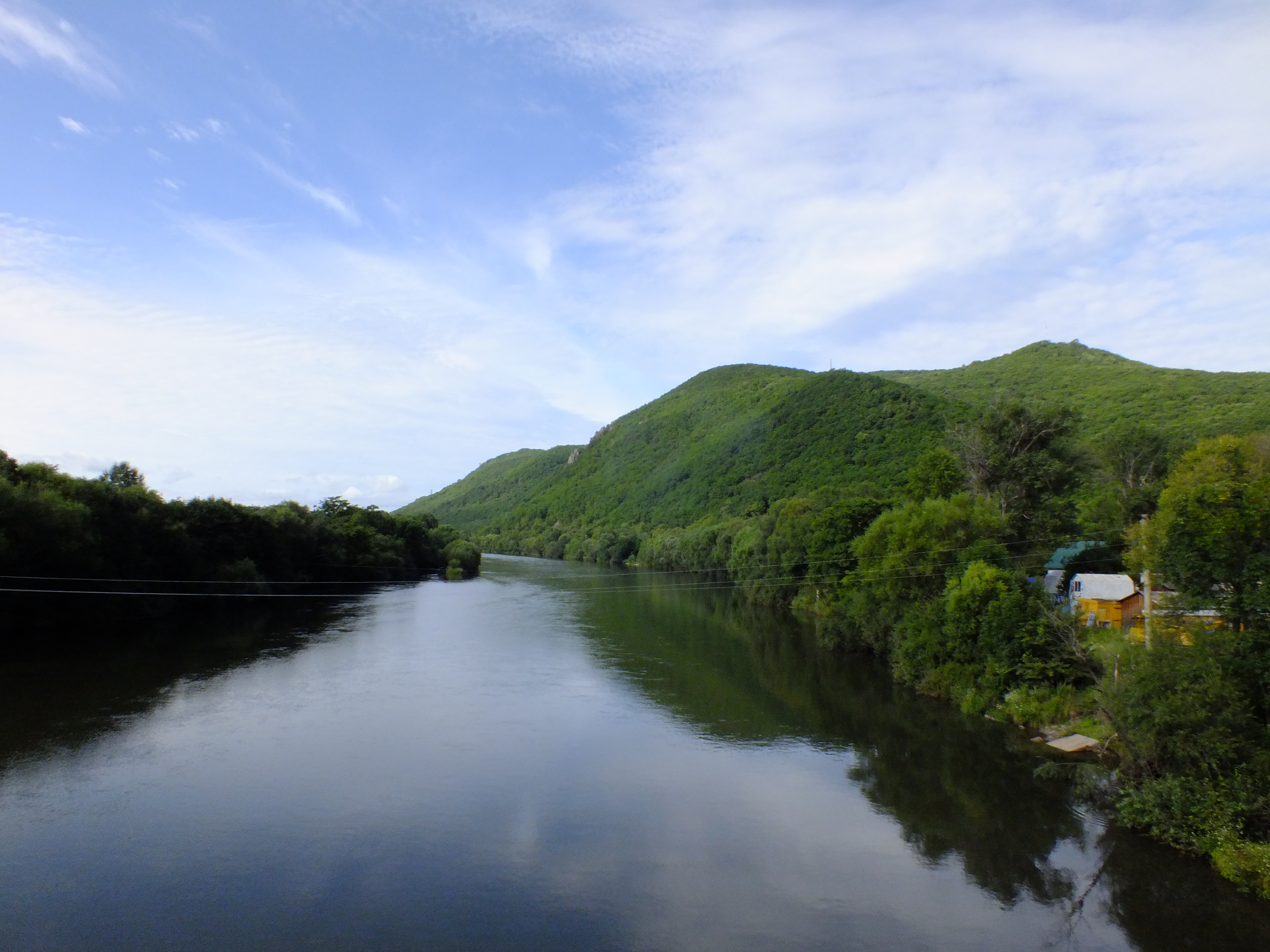 Ussuri River